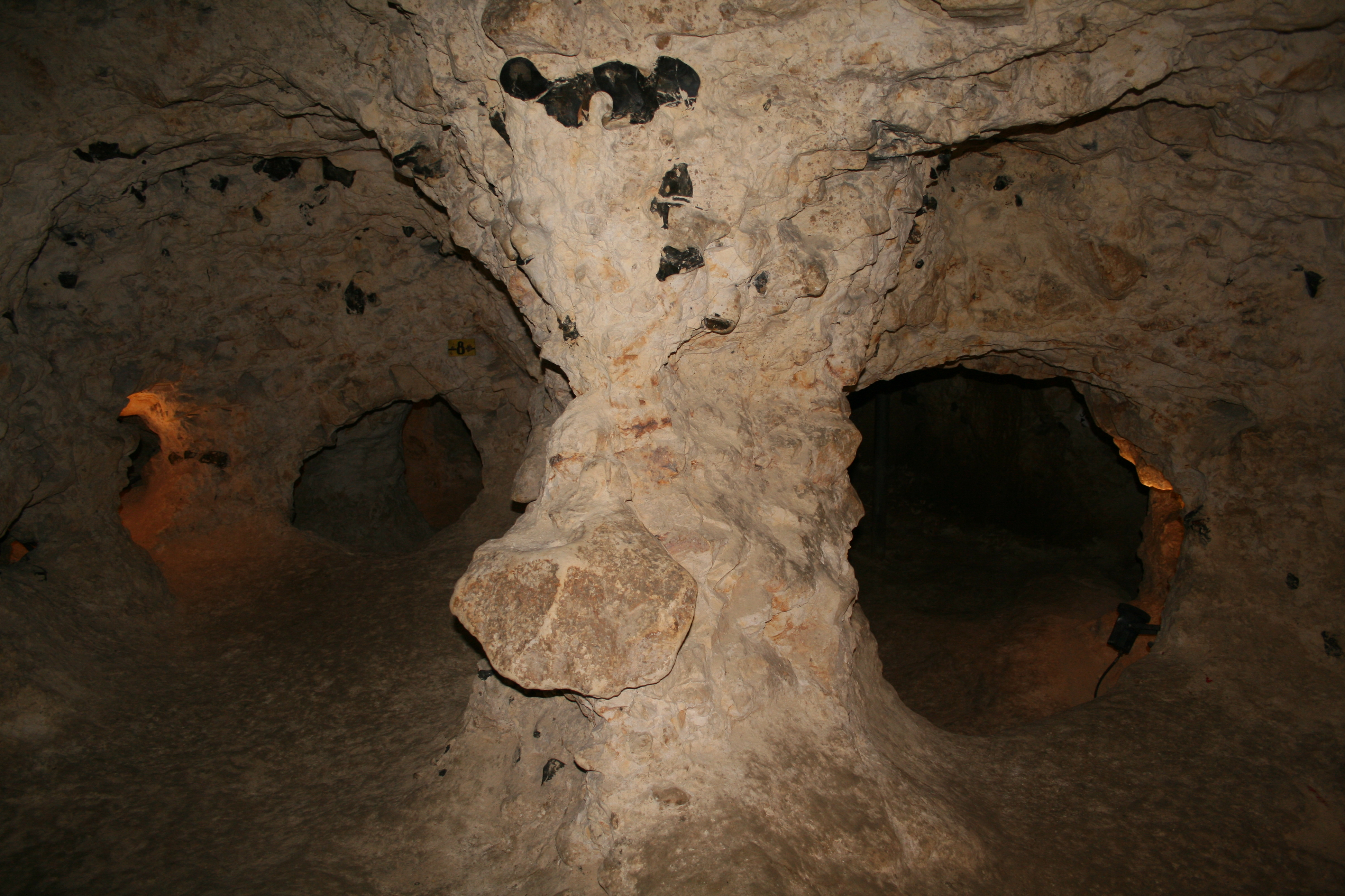 Spiennes (Belgium), neolithic mines of flint of the "Camp à Caillaux".